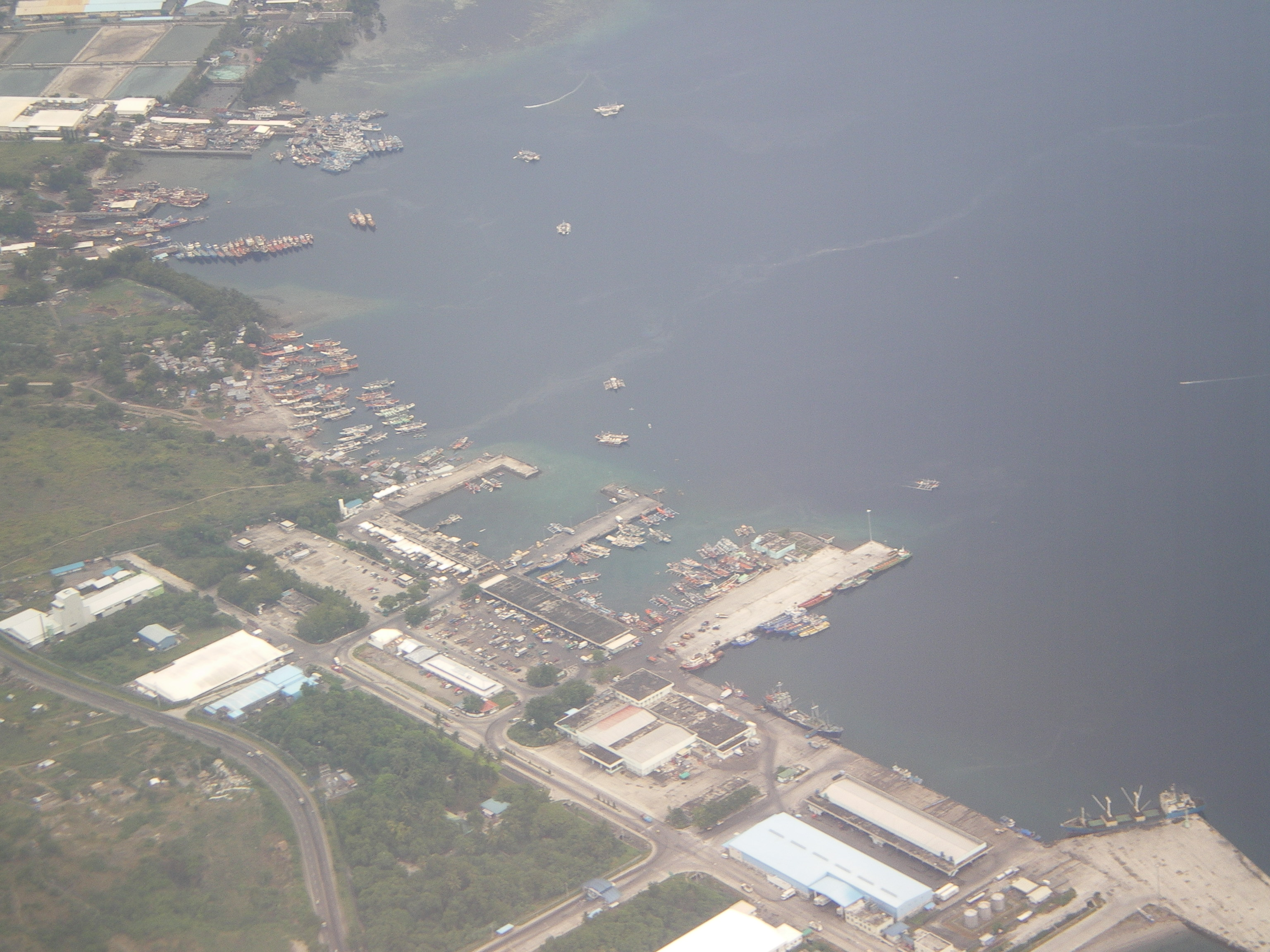 Typical daytime fishport operationa